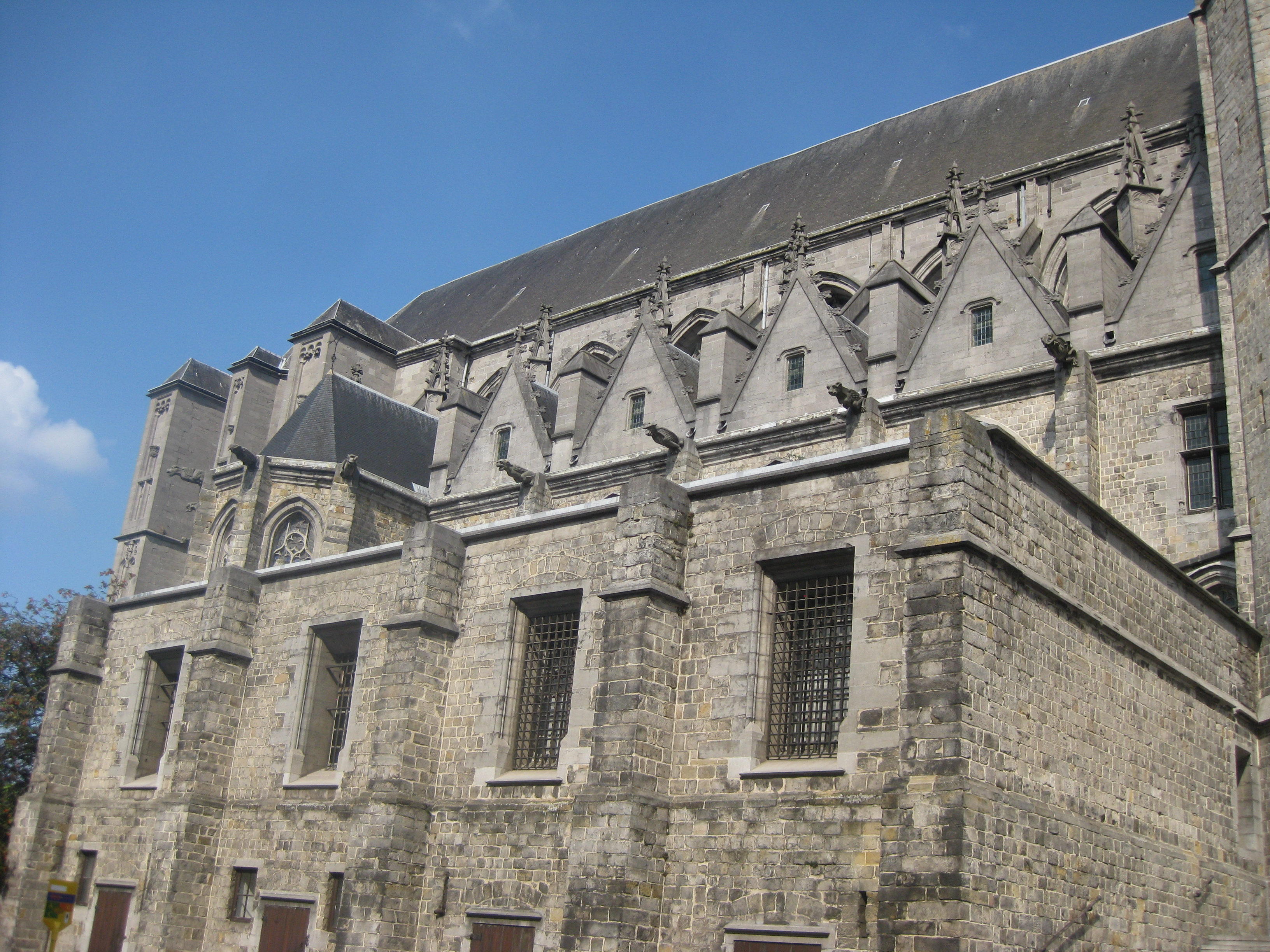 Collegiate church Sainte-Waudru, from the side